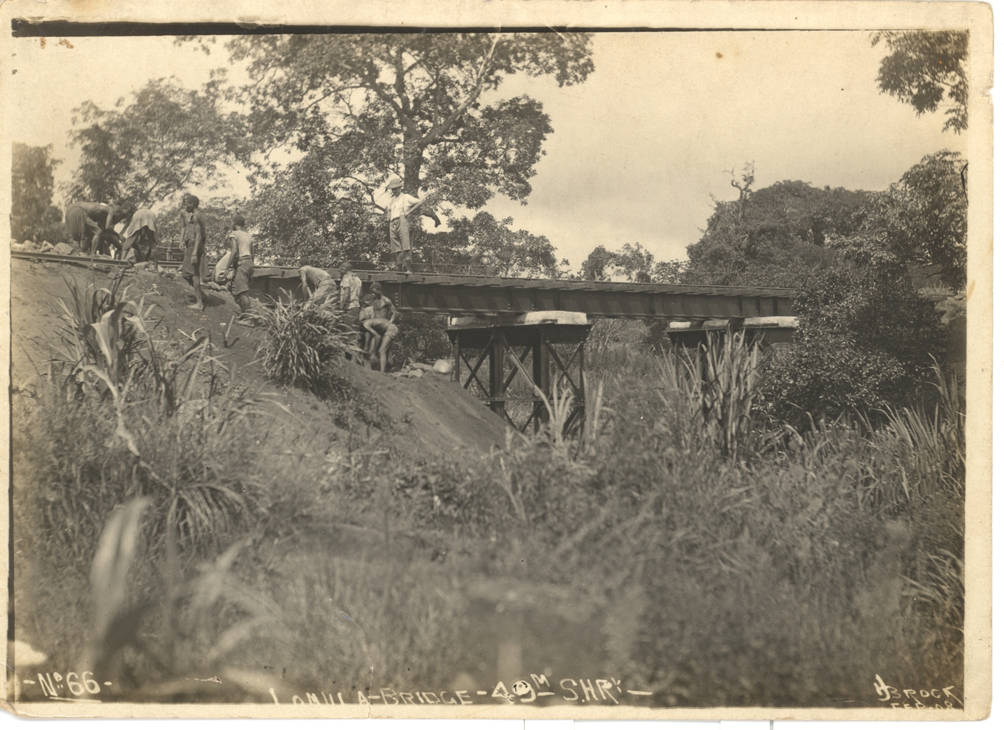 No. 66. Lomula Bridge - 49M - Shire Highlands Railway. February 1908